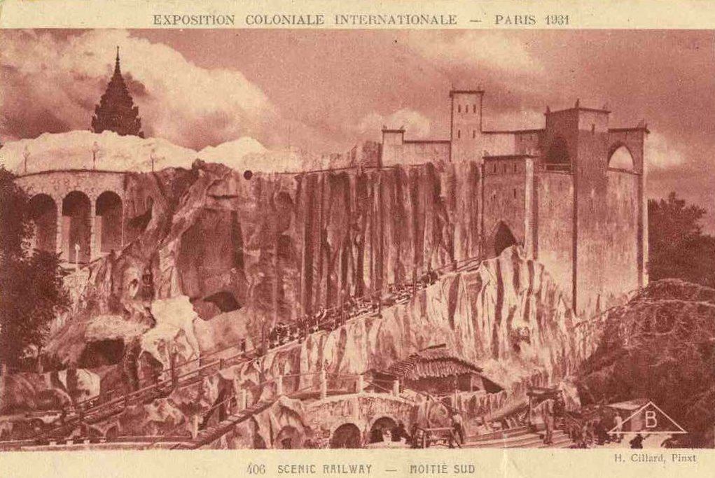 Montagnes russes "Scenic Railway"